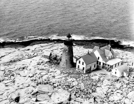 Mount Desert (Rock) Lighthouse, 1892 version, Maine, USA